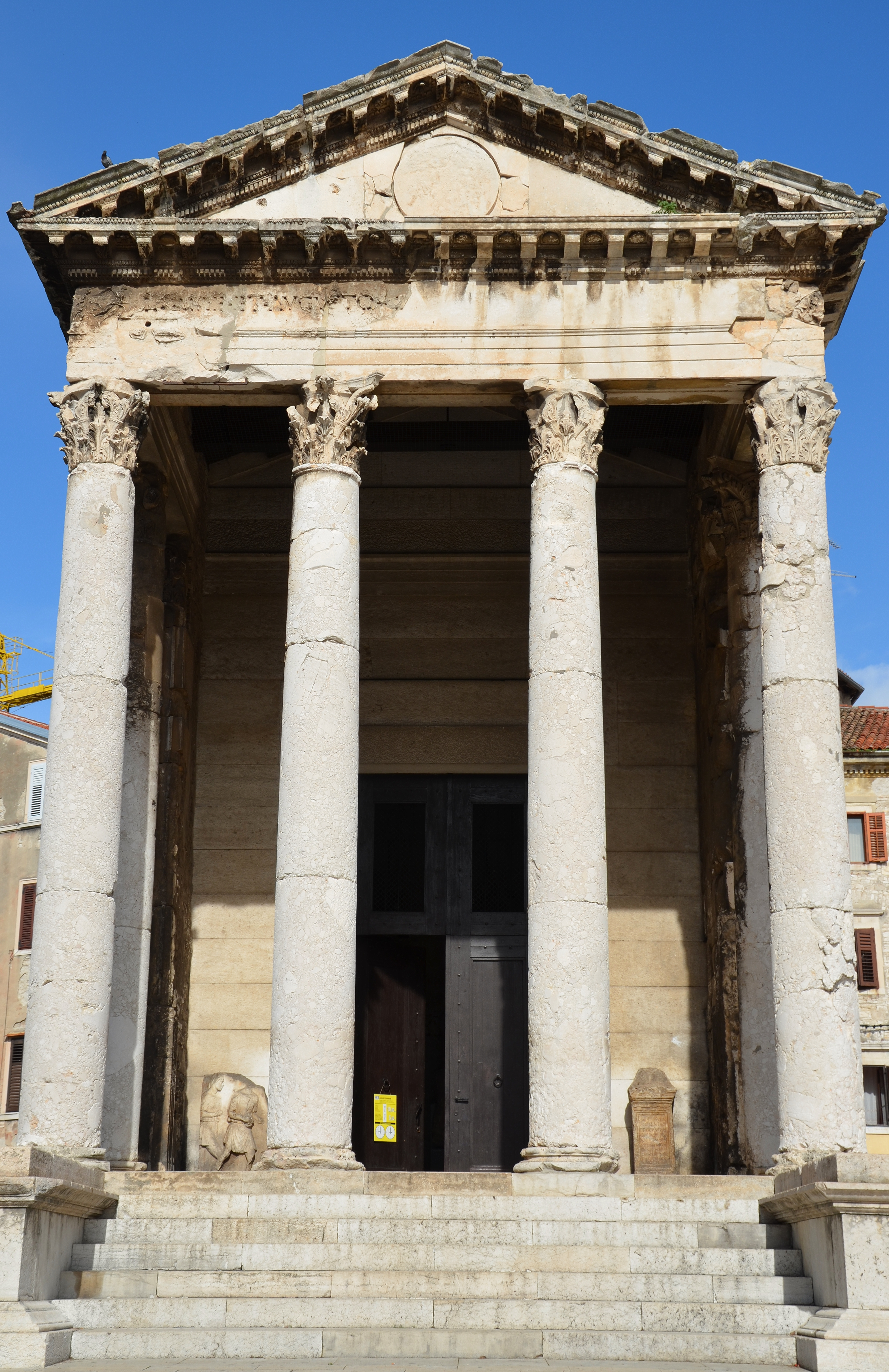 Temple of Augustus, Colonia Pietas Iulia Pola Pollentia Herculanea, Histria